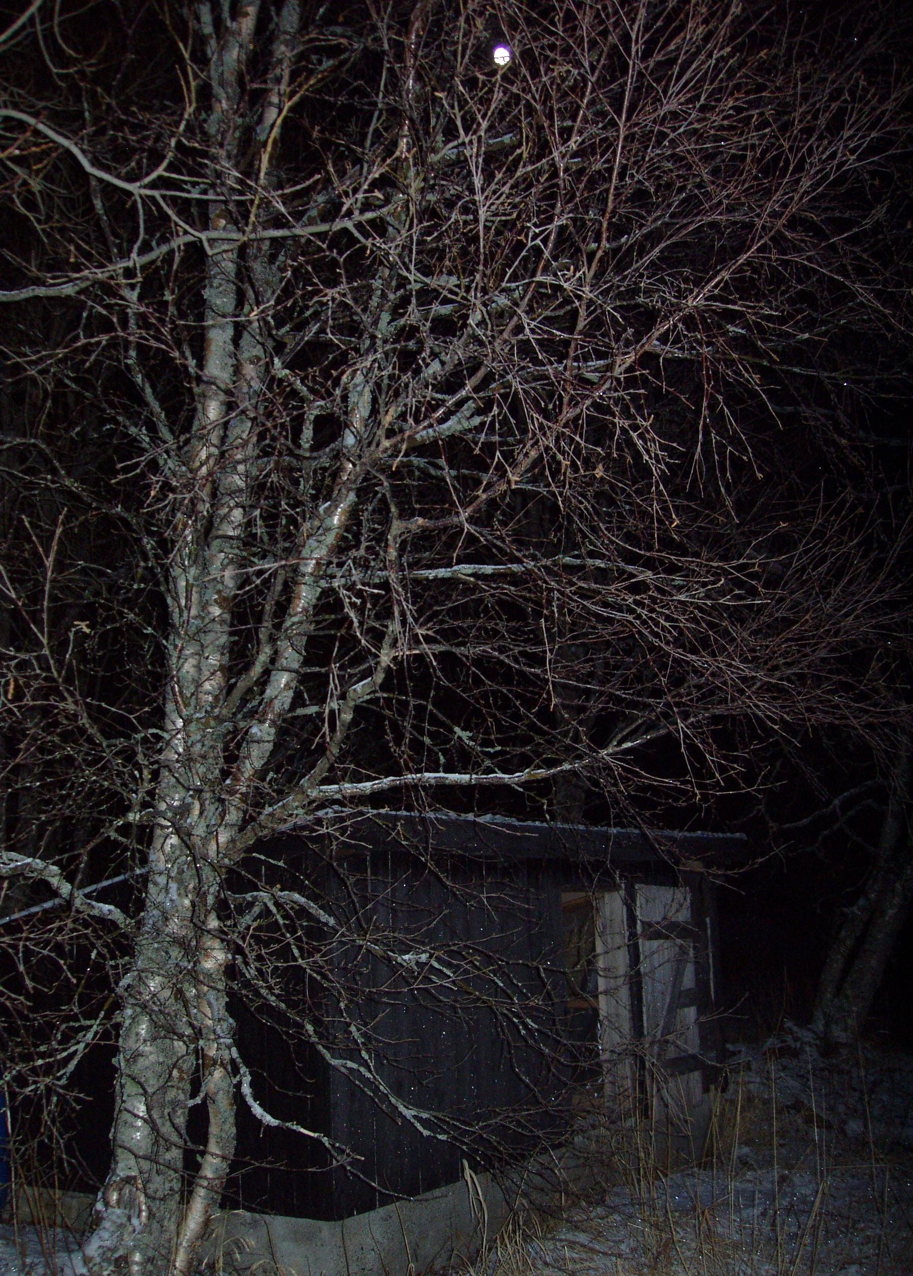 Bearch Betula pubescens in Vefsn, Norway